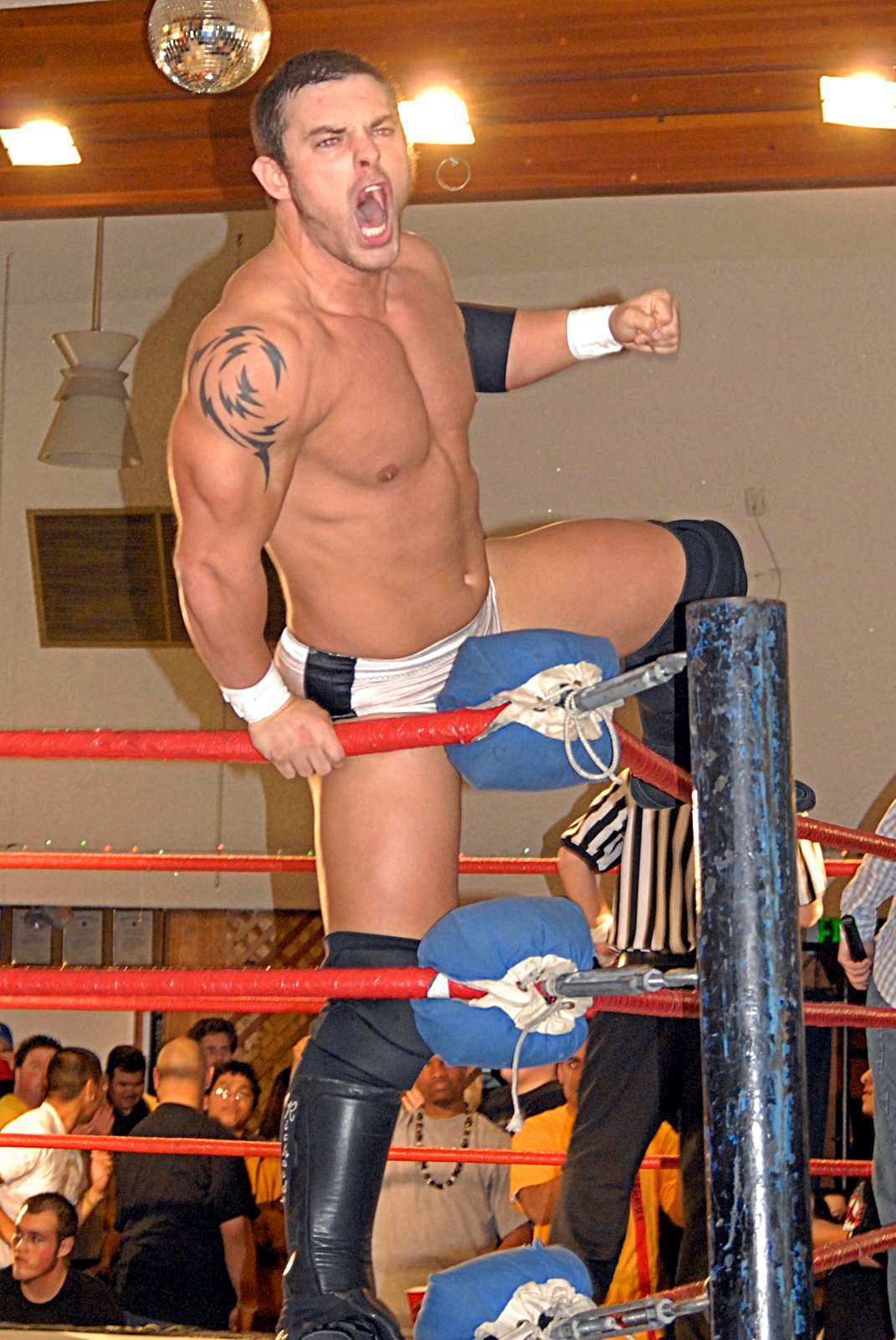 Professional wrestler Davey Richards at Night 1 of Pro Wrestling Guerrilla's All Star Weekend in June 2005.